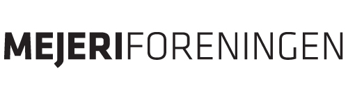 Logo of Danish Dairy Board / Mejeriforeningen